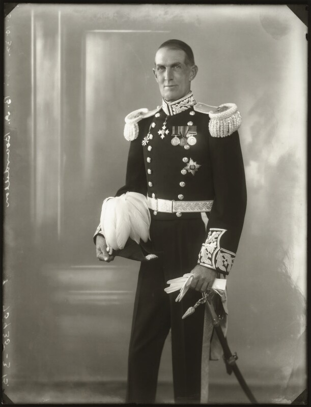 Sir Bernard Henry Bourdillon